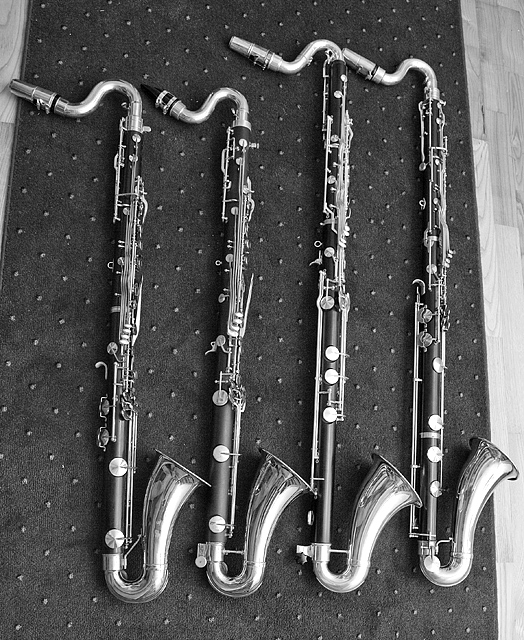 A photo showing four bass clarinets. From left: (most likely) Leblanc L400, Signet Selmer 1430P, E. M. Winston, Leblanc 330S. The Leblanc instruments and the E. M. Winston instrument are made out of african blackwood, but the Signet Selmer instrument is made out of hard rubber.